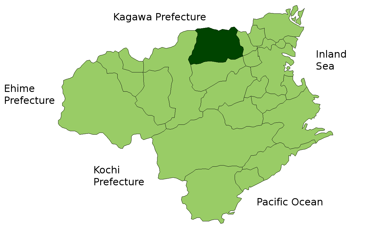 Map of Tokushima Prefecture highlighting Awa city. Borders of map as of October, 2006. (blank map used from [1]) See also Image:TokushimaMapCurrent.png